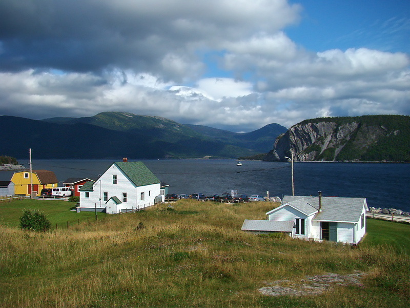 Norris Point, Bonne Bay, Western Newfoundland, Canada. One of these privileged towns which have the landscape of the Gros Morne National Park at their windows.